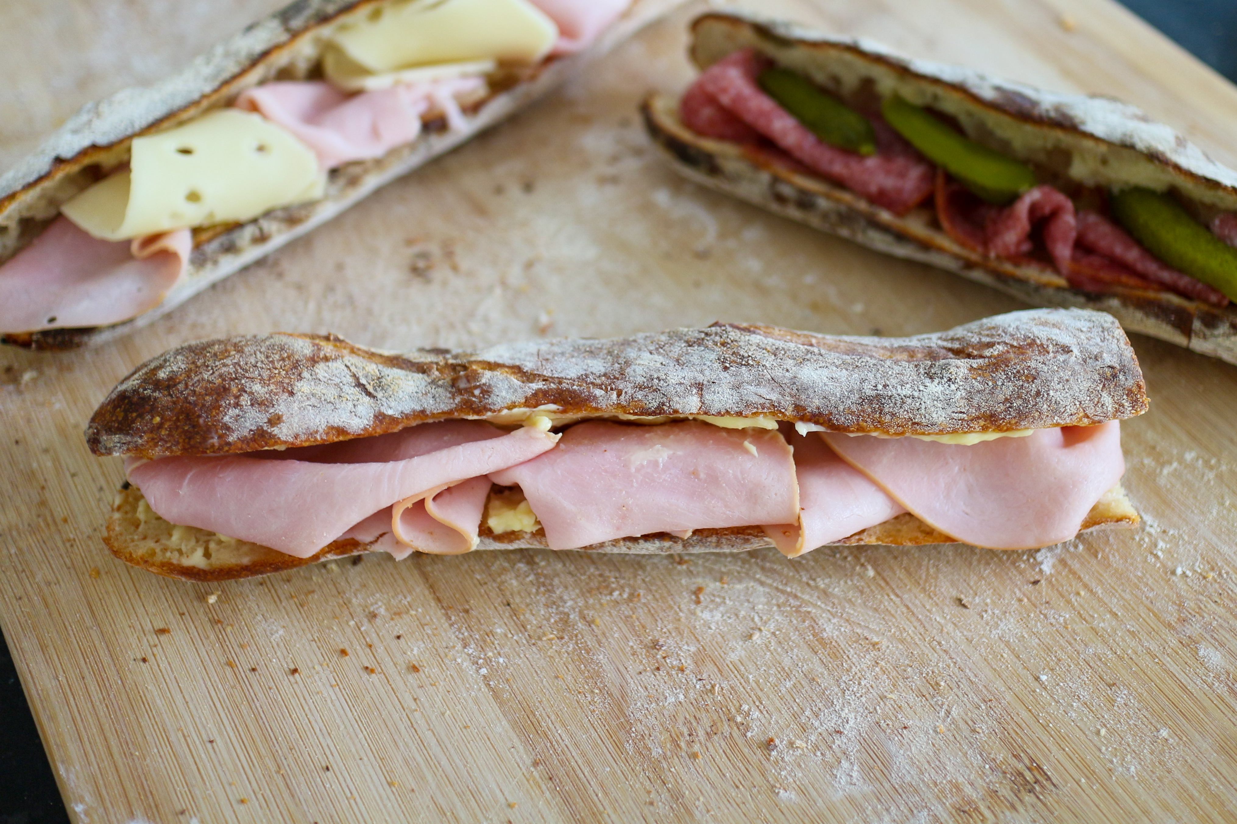 A classic Jambon-beurre (French ham sandwich) in the foreground and other classics -- Jambon-emmental (French ham and swiss cheese sandwich) and Rosette-cornichons (French salami and gherkin sandwich) -- in the background.